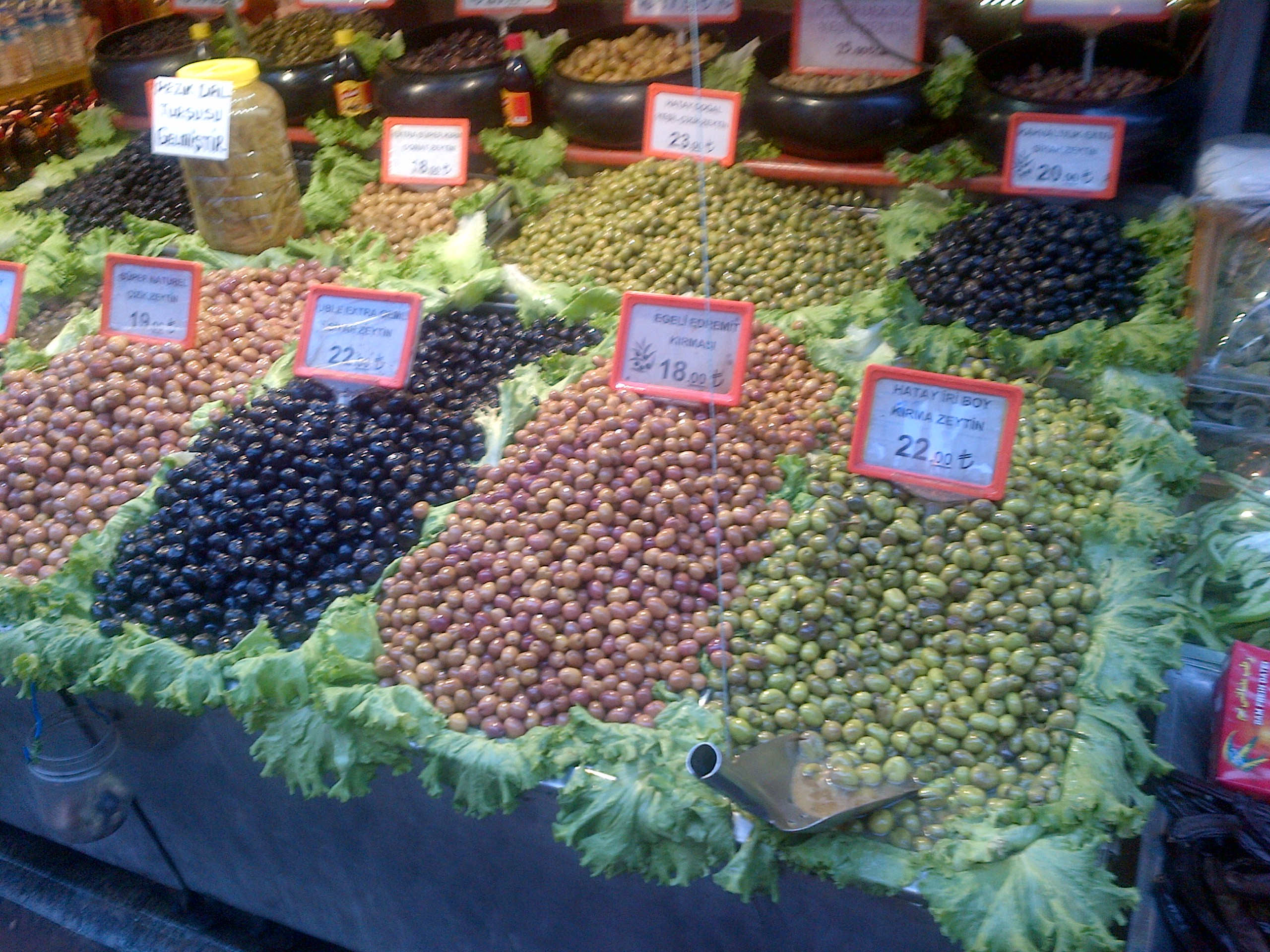 Table olives at the Historical Market of Kadıköy, Istanbul.